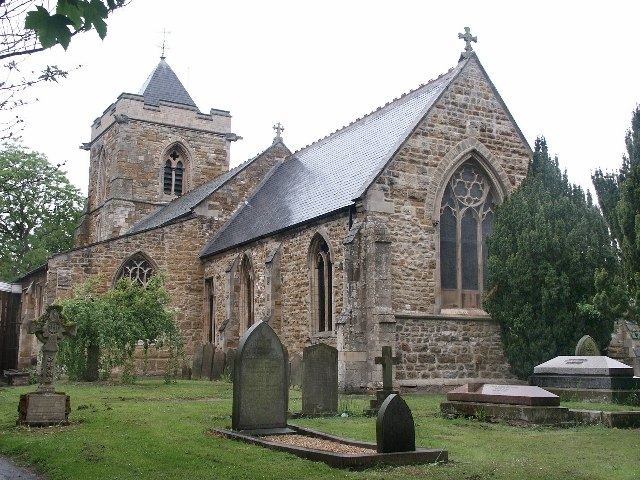 All Saints, Waltham. In origin early 14th century.